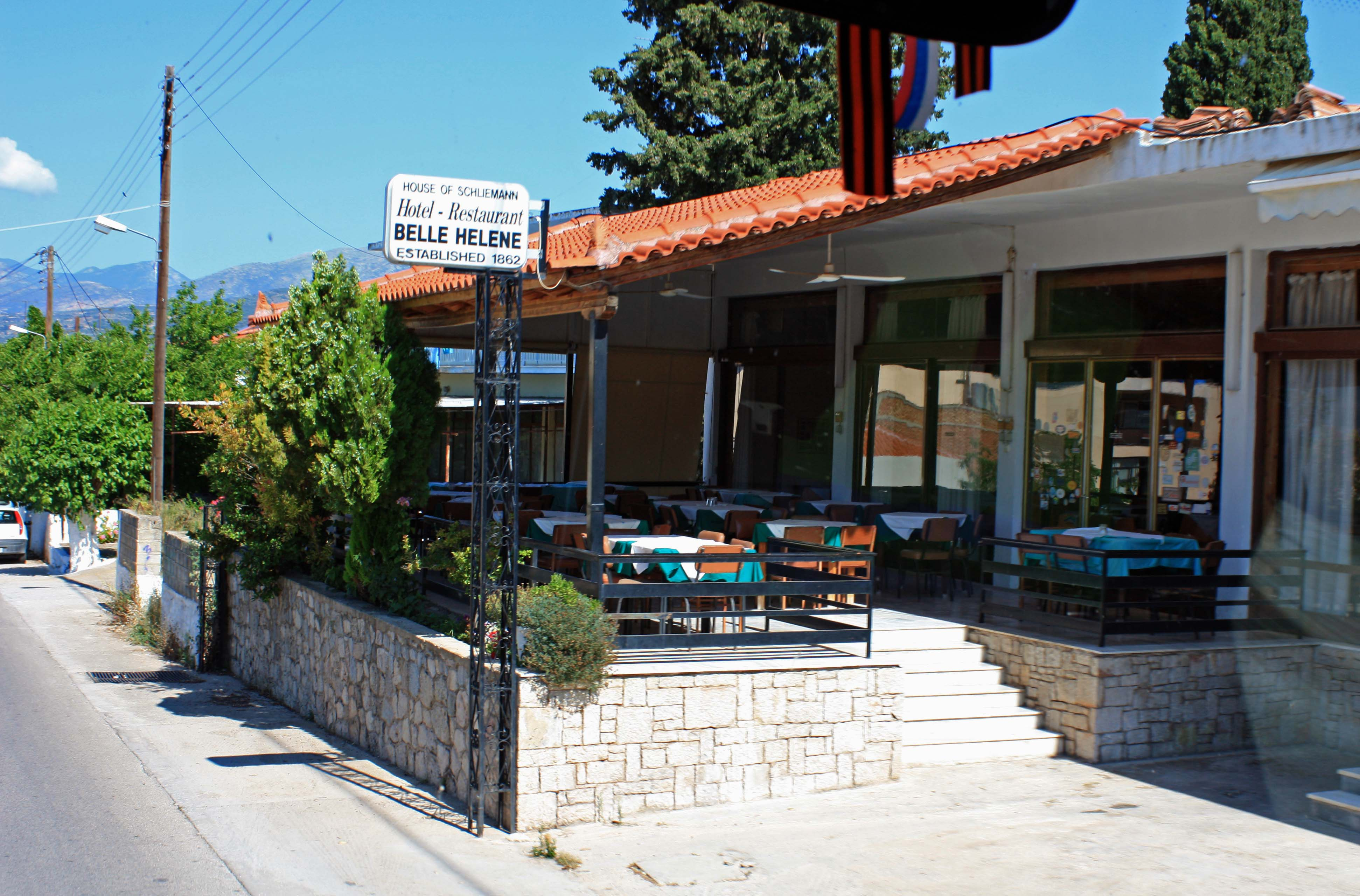 Heinrich Schliemann house near Mycenae, Greece.